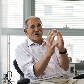 Andy Lippman - Associate Director of the MIT Media Lab